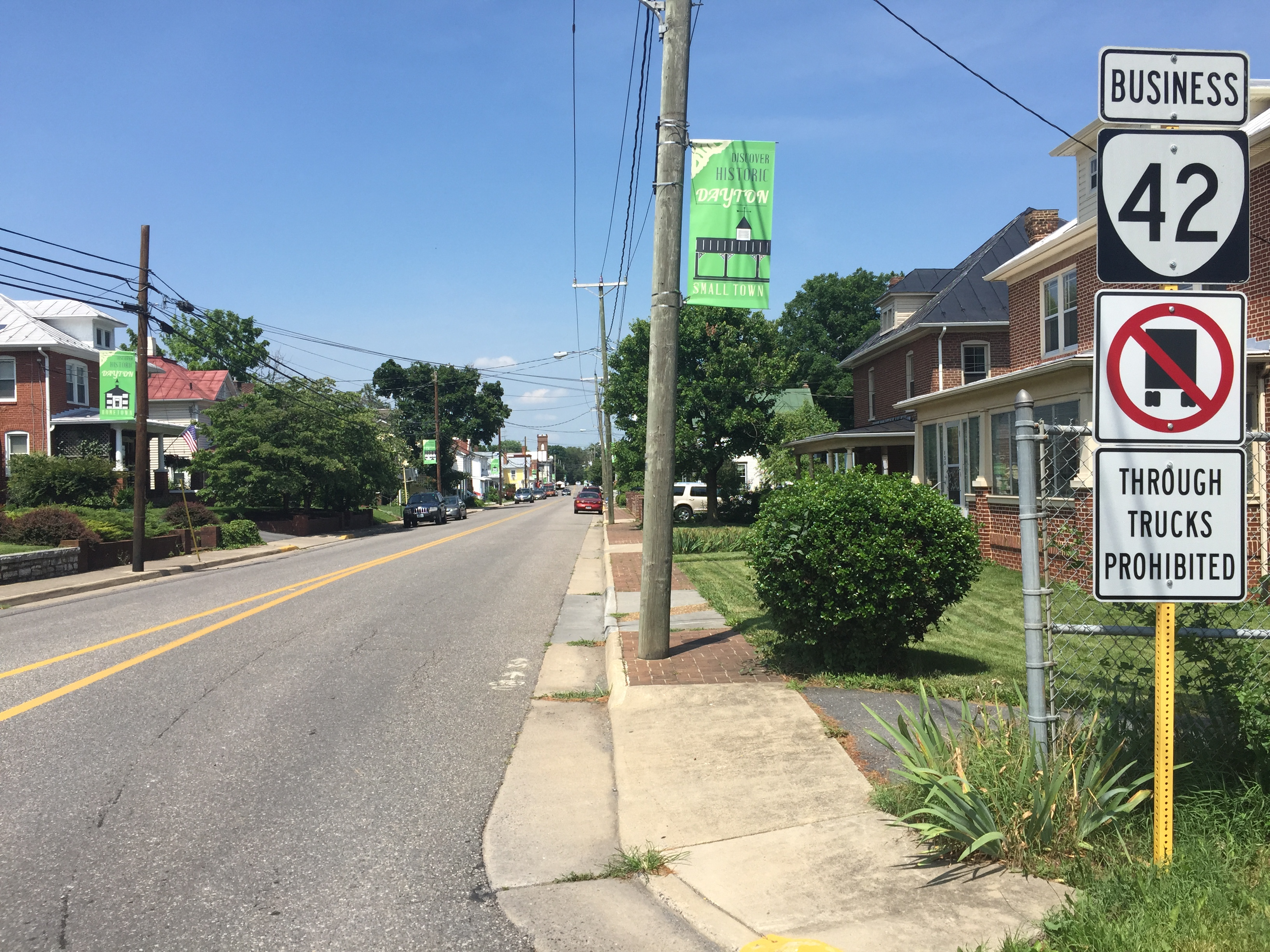 View north along Virginia State Route 42 Business (Main Street) at Virginia State Route 257 (Mason Street) in Dayton, Rockingham County, Virginia